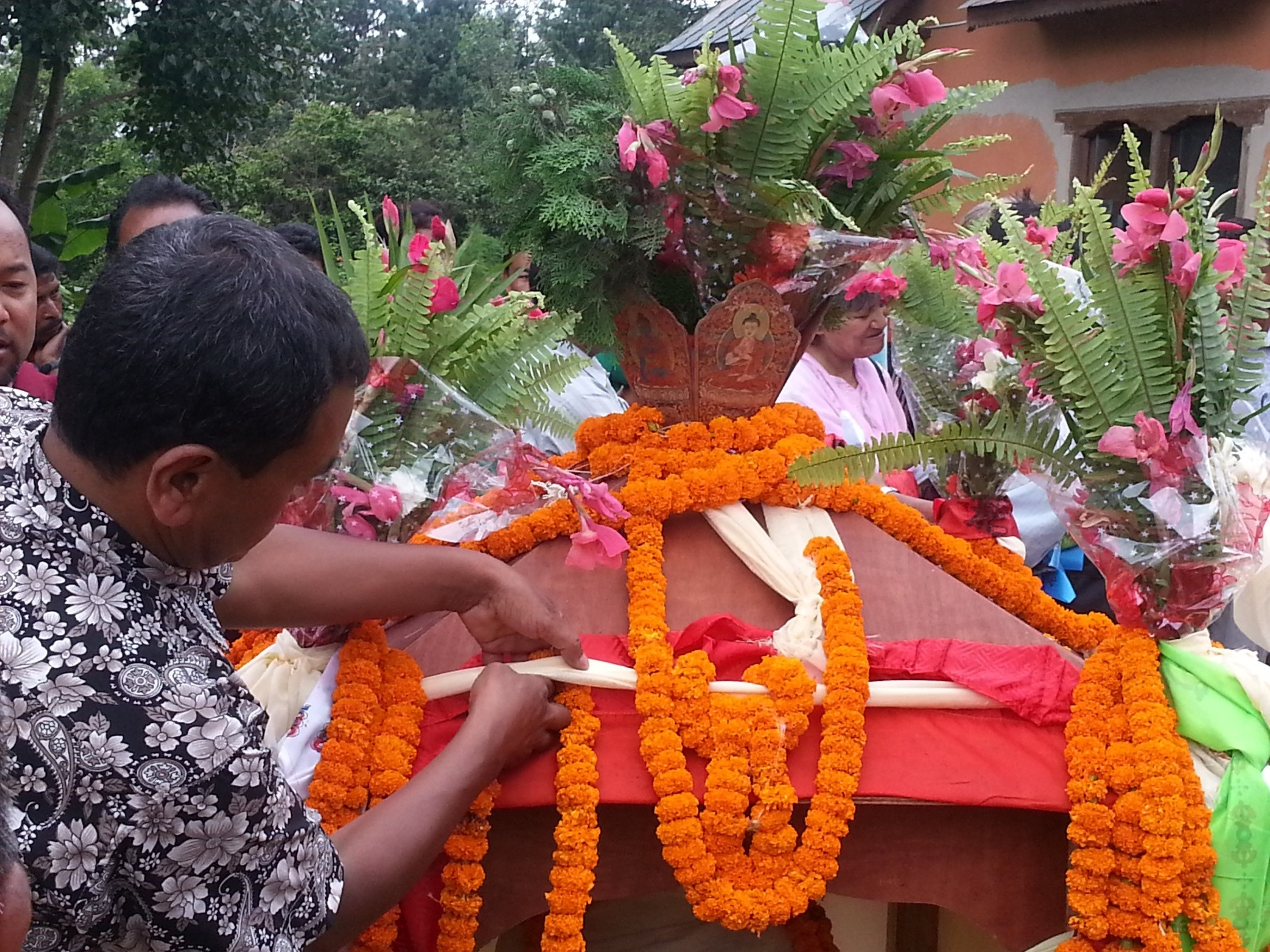 JustMomentBeforeBurningCorpse